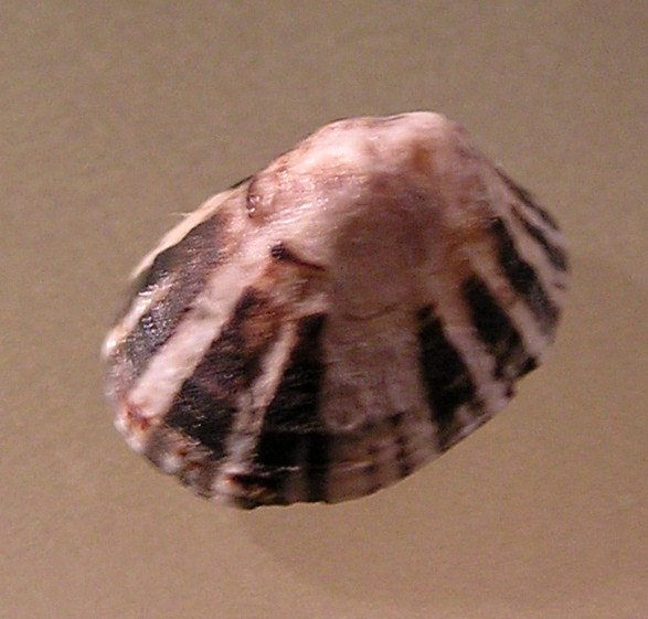 Notoacmaea mayi May, 1923, a true limpet from the family Lottiidae; Southern Australia